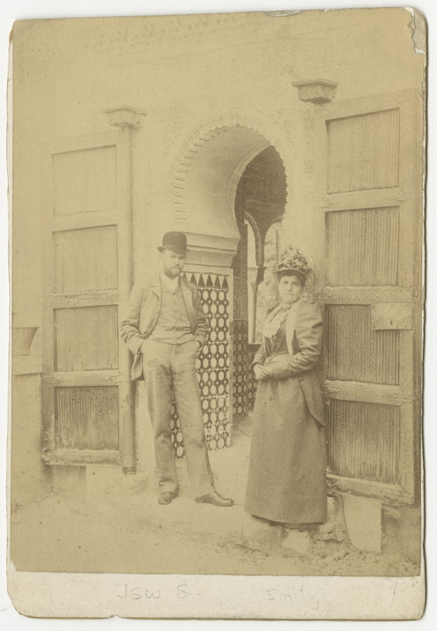 Emily and James Sibley Watson at the entrance to the mosque in the Alhambra, Granada, Spain, June 2, 1891. George Eastman Museum Film Archives, album of photographs, Box C550